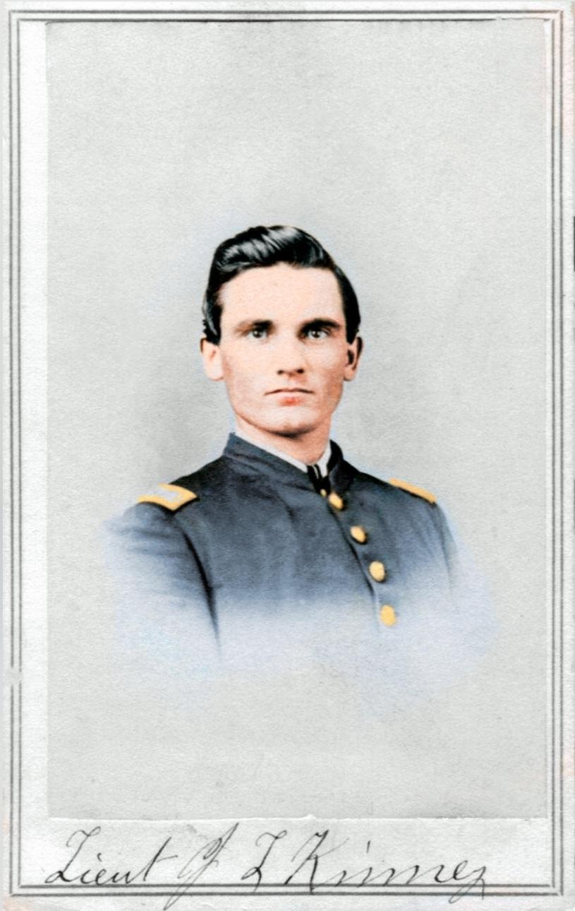 John L Kinney 1842-1910 was part of the 10th Iowa under Grant until 1863 at which time he took a commission in the 50th Colored Infantry, US Army